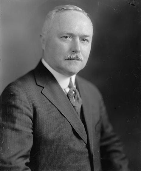 David J. O'Connell, New York Congressman